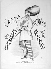 This is a song sheet for the performance. As it is over 140 years old, it is in the public domain